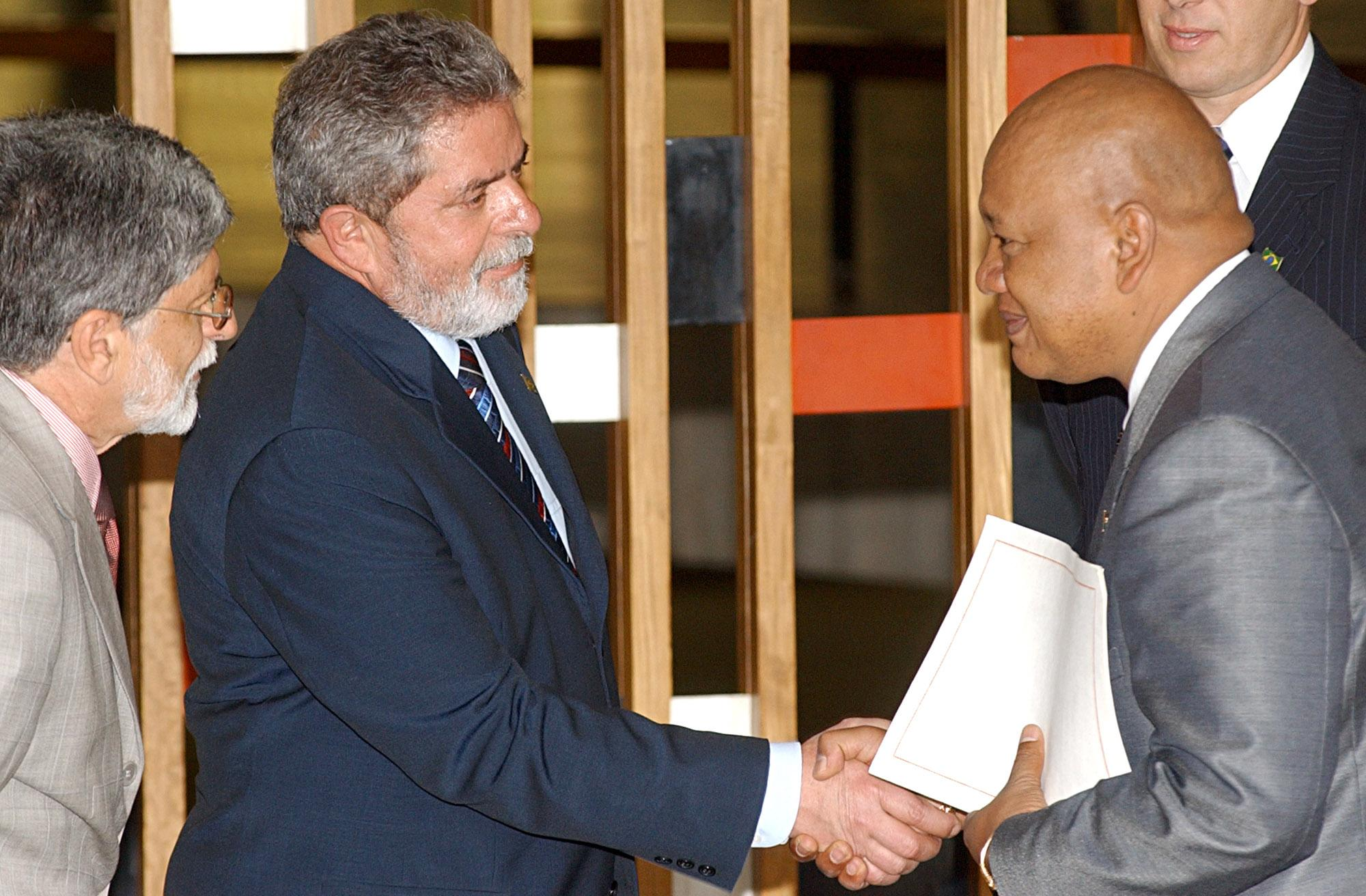 Narisoa Rajaonarivony, Ambassador of Madagascar to the United States and non-resident Ambassador of Madagascar to Brazil presented his credentials to Luiz Inácio Lula da Silva, President of Brazil.